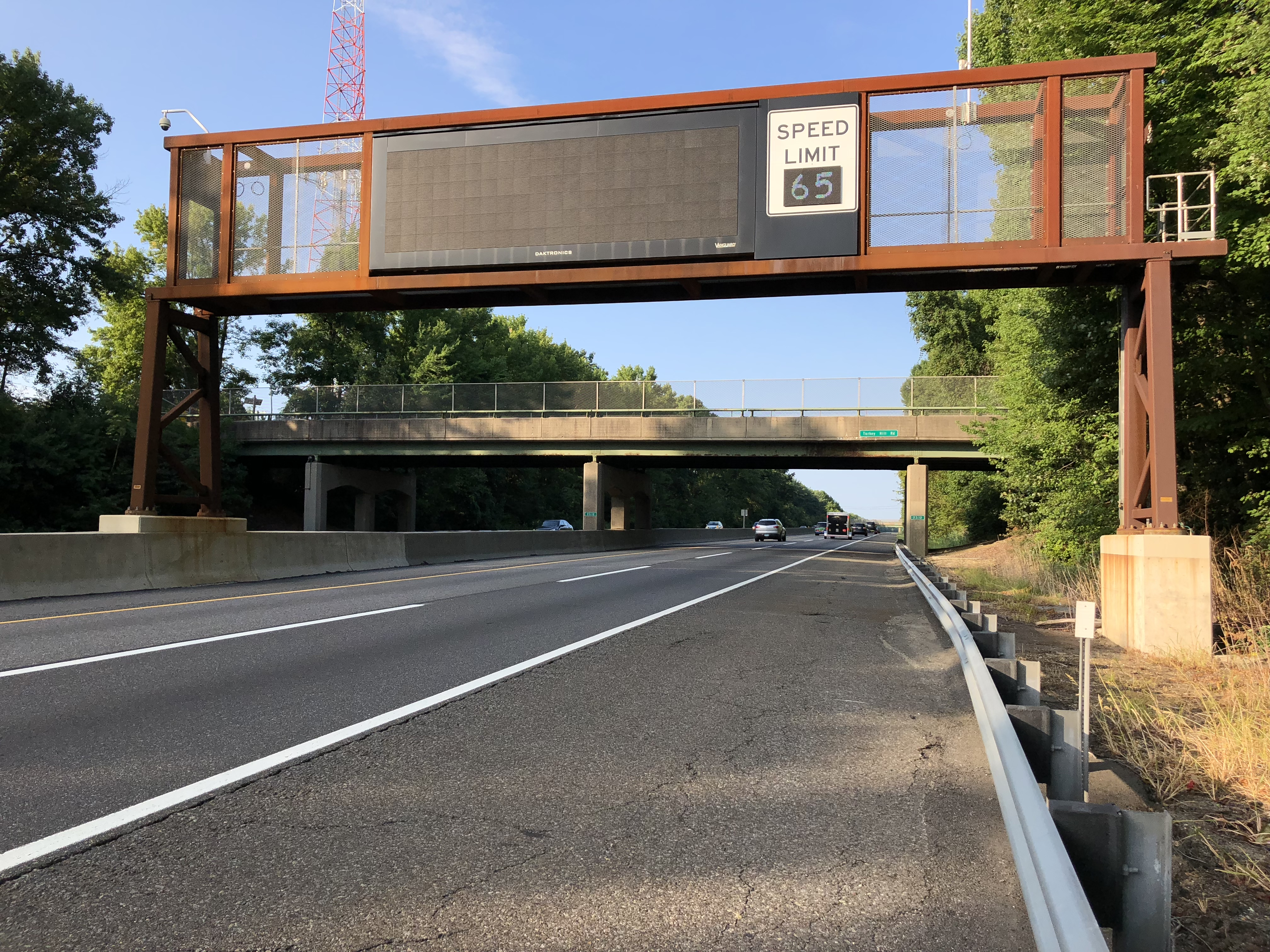 View south along New Jersey State Route 700 (New Jersey Turnpike) between Exit 3 and Exit 2 in Deptford Township, Gloucester County, New Jersey